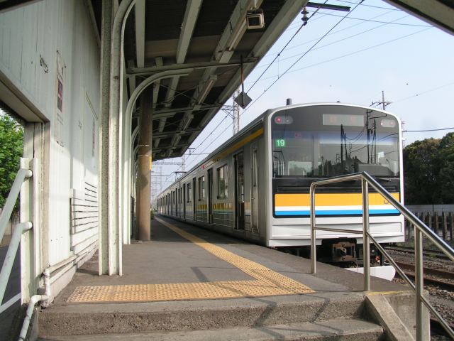 Platform of Ōkawa Station, JR-East Tsurumi Line, Kawasaki-ku, Kawasaki, Japan at 2005/08/15